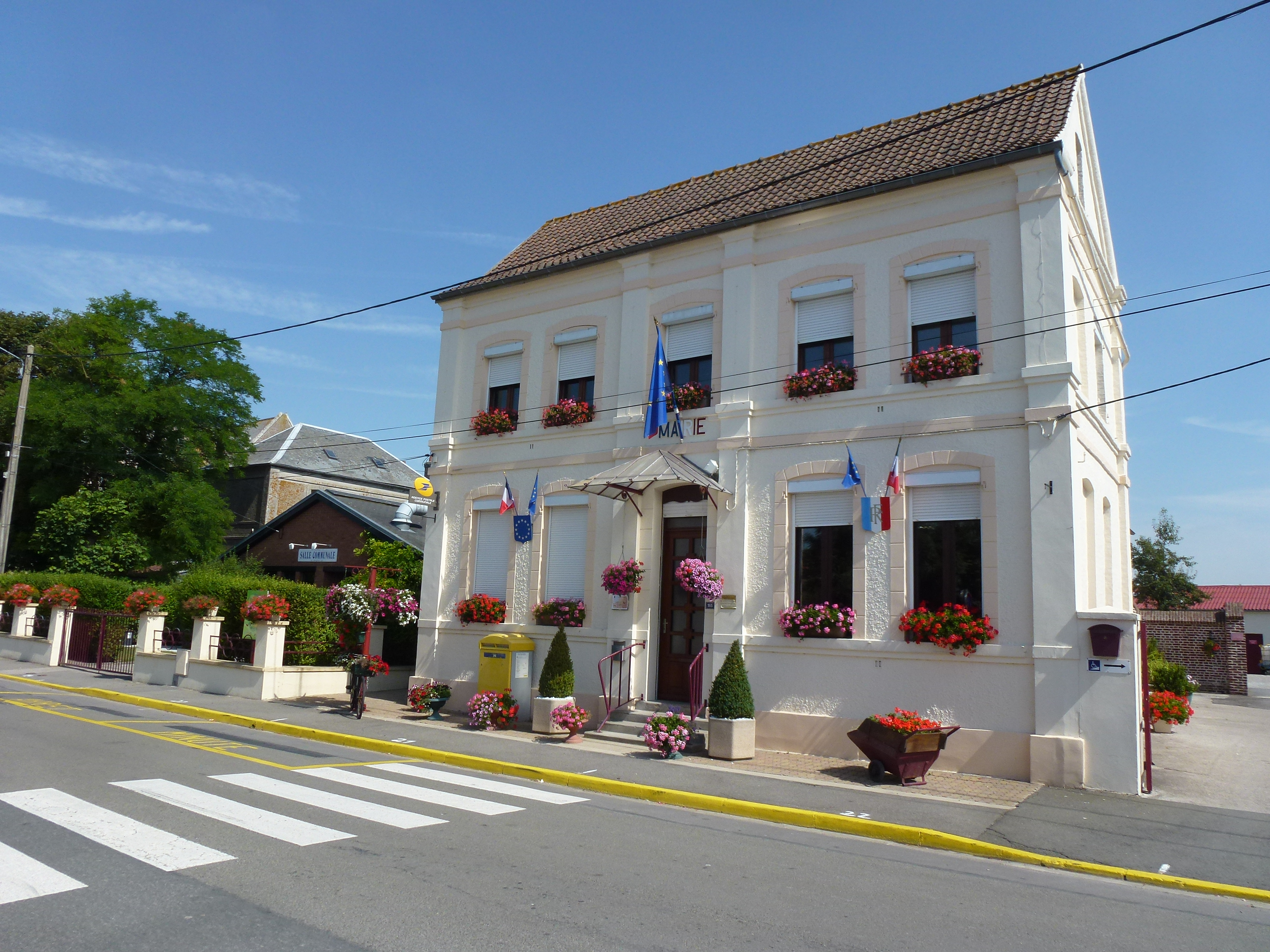 Vieille-Église (Pas-de-Calais) mairie